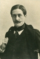 Paul Hervieu (1857-1915), French novelist and playwright